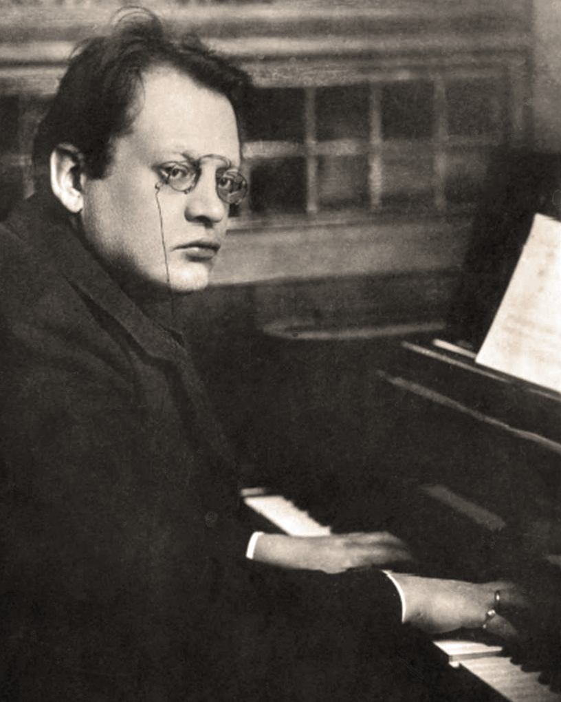 Max Reger playing piano